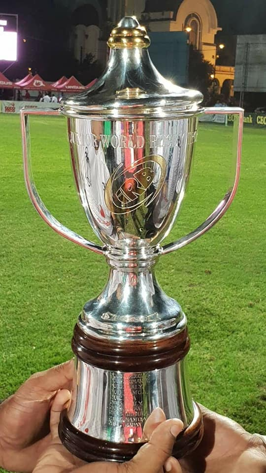 Fijian u20 players with the World Rugby Under 20 Trophy after wonning the w:2018 World Rugby Under 20 Trophy